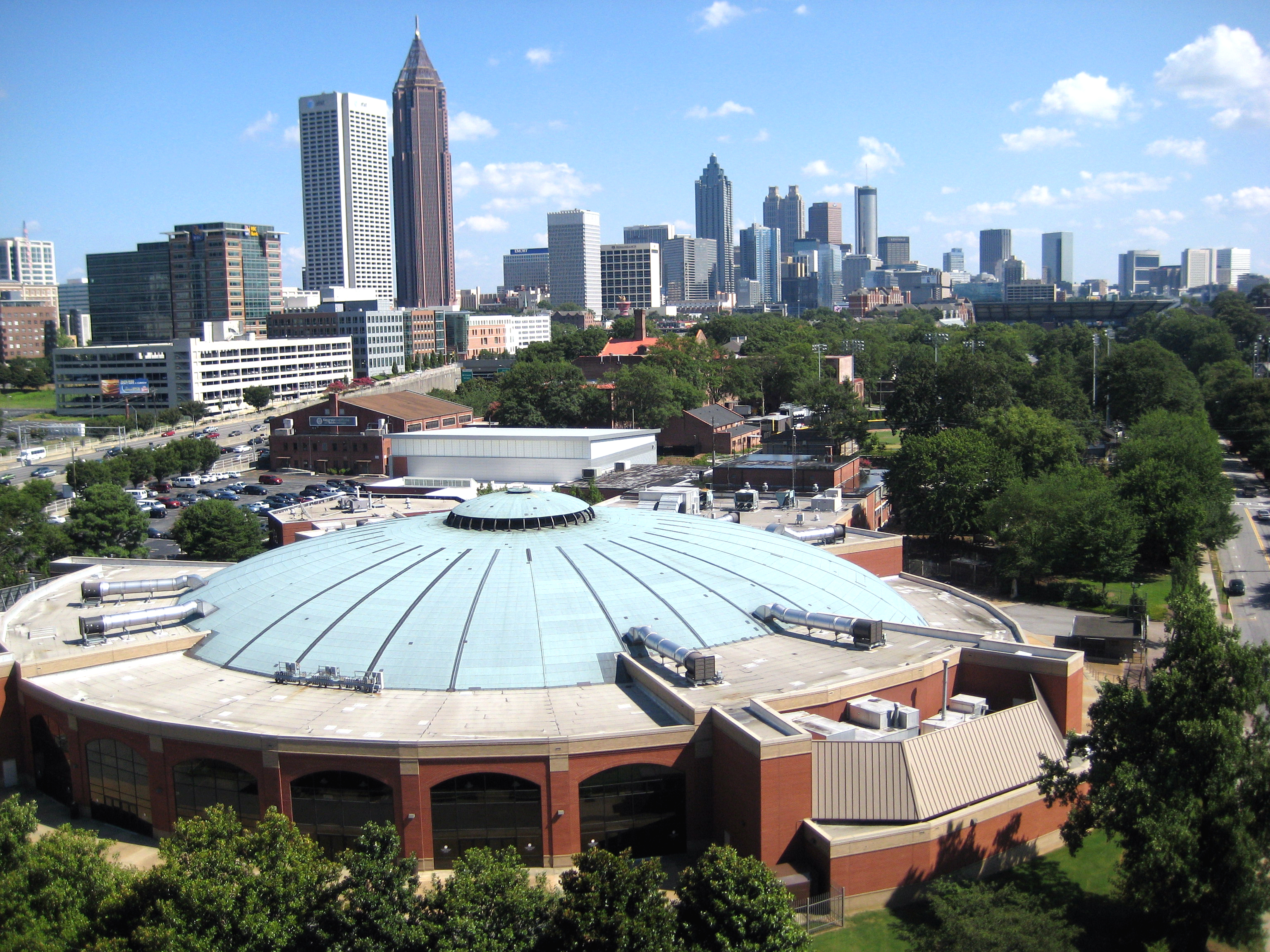 Alexander Memorial Coliseum IN THE FOREGROUND AND DOWNTOWN ATLANTA IN THE BACKGROUND